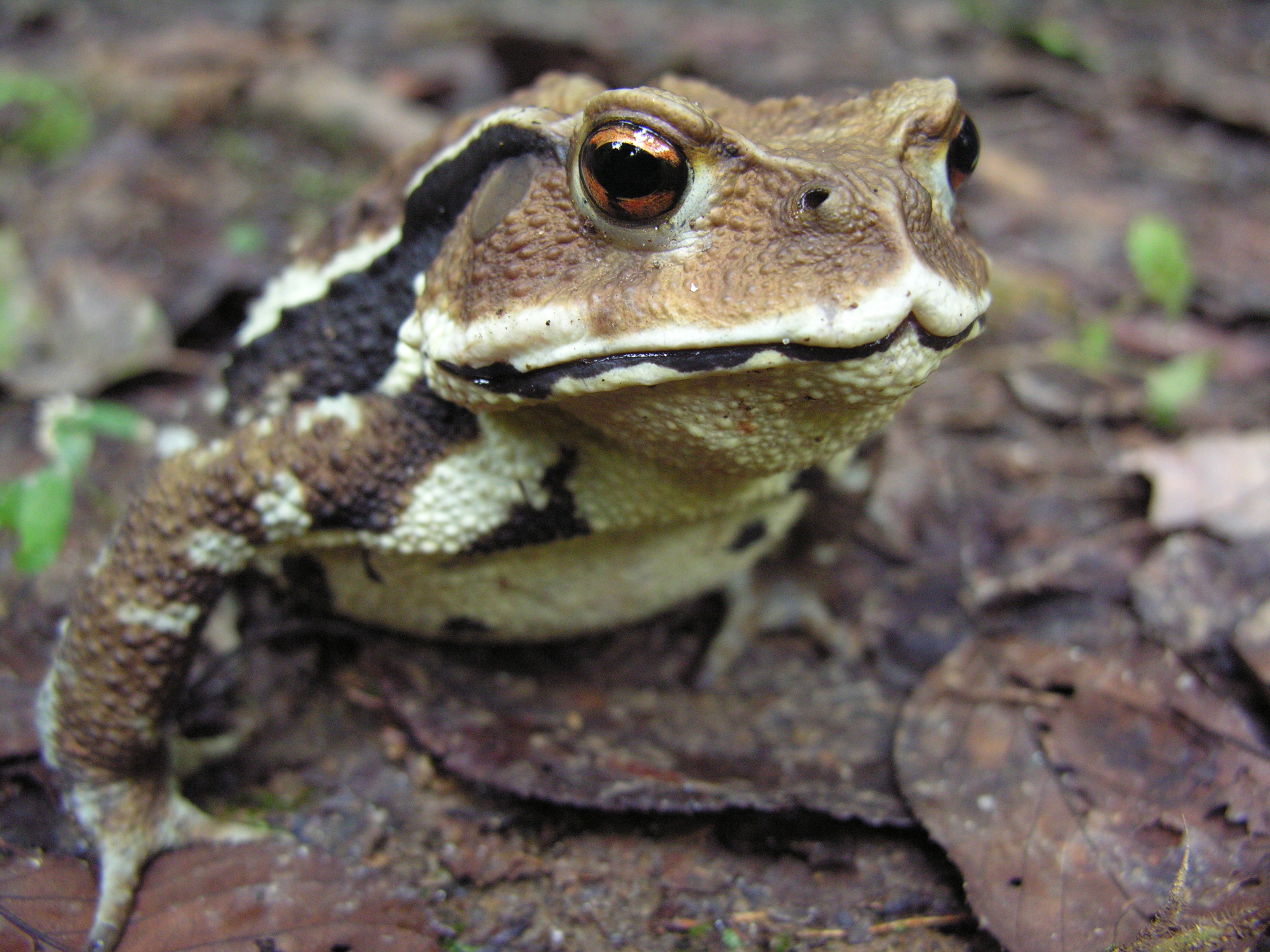 Japanese Common Toad, Aichi Japan